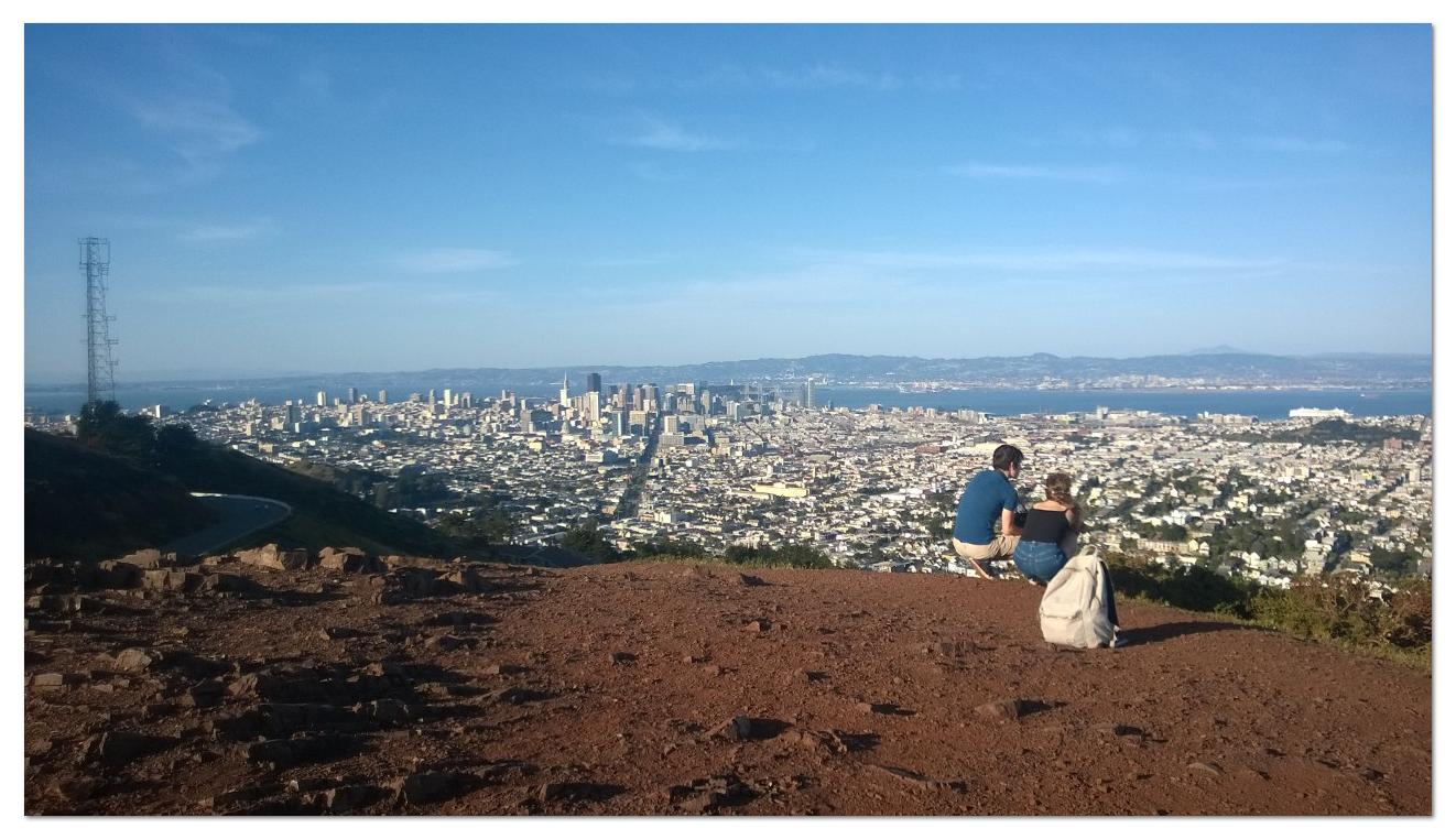 A picture of San Francisco taken in mid 2014 with a Nokia Lumina 928.